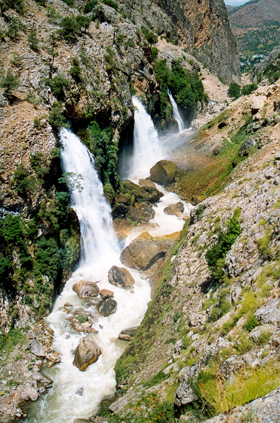 Waterfalls erupting from a cliff, Kayseri Province, Turkey.